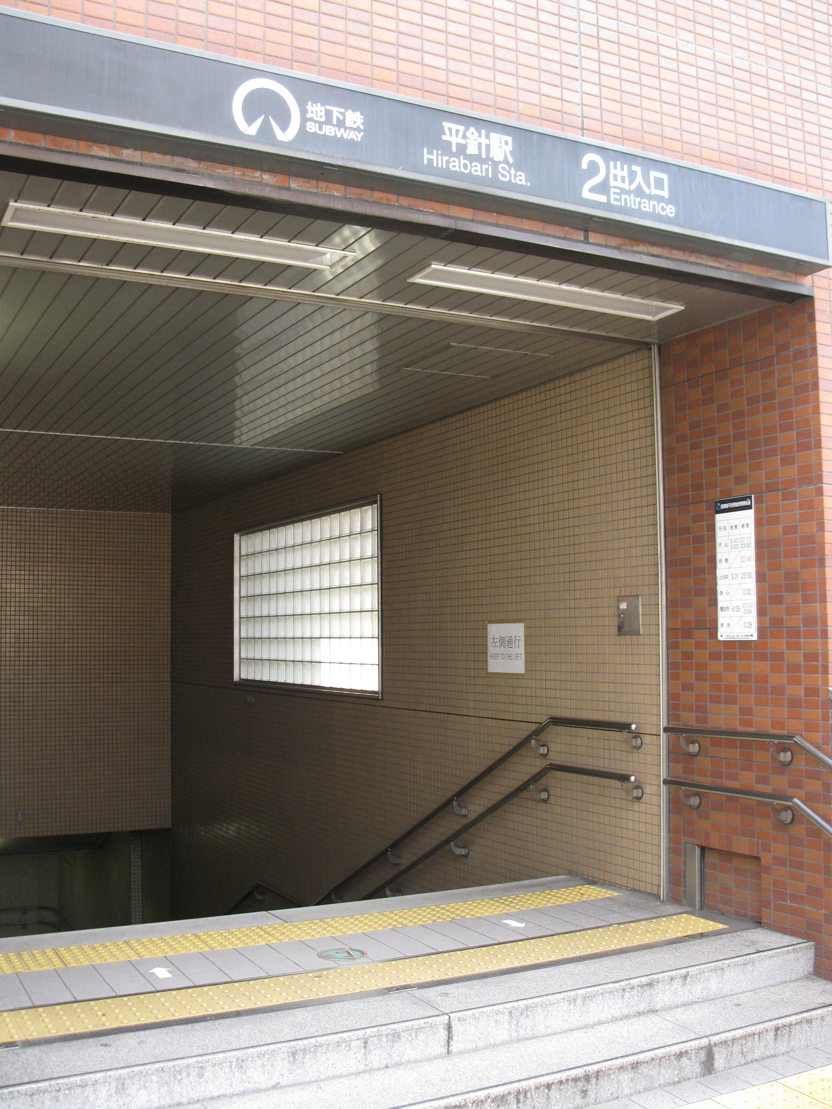 Hirabari Station no.2 entrance (Nagoya Municipal Subway Tsurumai Line)